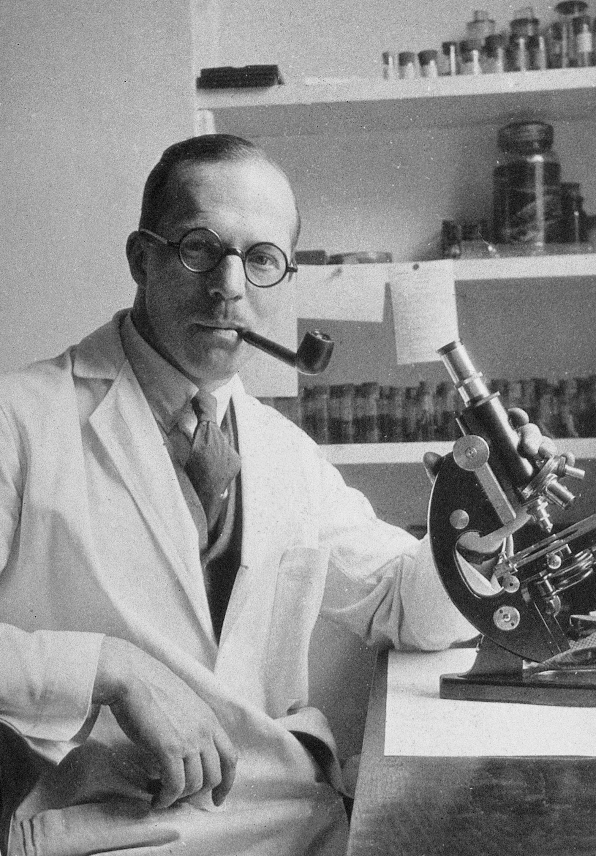 Cecil Arthur Hoare. Photograph